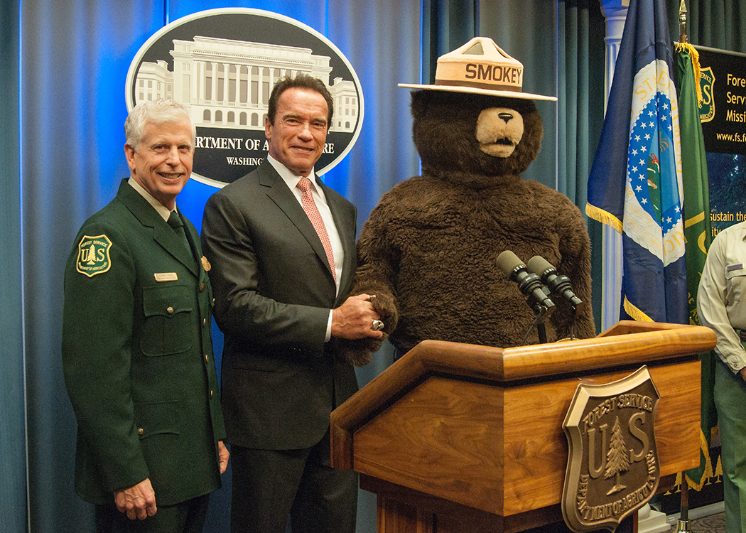 From left: U.S. Forest Service Chief Tom Tidwell, former California Governor Arnold Schwarzenegger and Smokey Bear pose during an event honoring Gov. Schwarzenegger as an honorary Forest Ranger at the U.S. Department of Agriculture in Washington, D.C. Wed., Oct. 29, 2013. Gov. Schwarzenegger is being honored for his signing and implementing the landmark California Global Warming Solutions Act of 2006 and continued leadership on climate change since leaving office. USDA photo by Bob Nichols